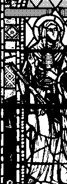 Drawing of a window in the parish church of St Gabriel, Brynmill, Swansea, representing Saint Elli